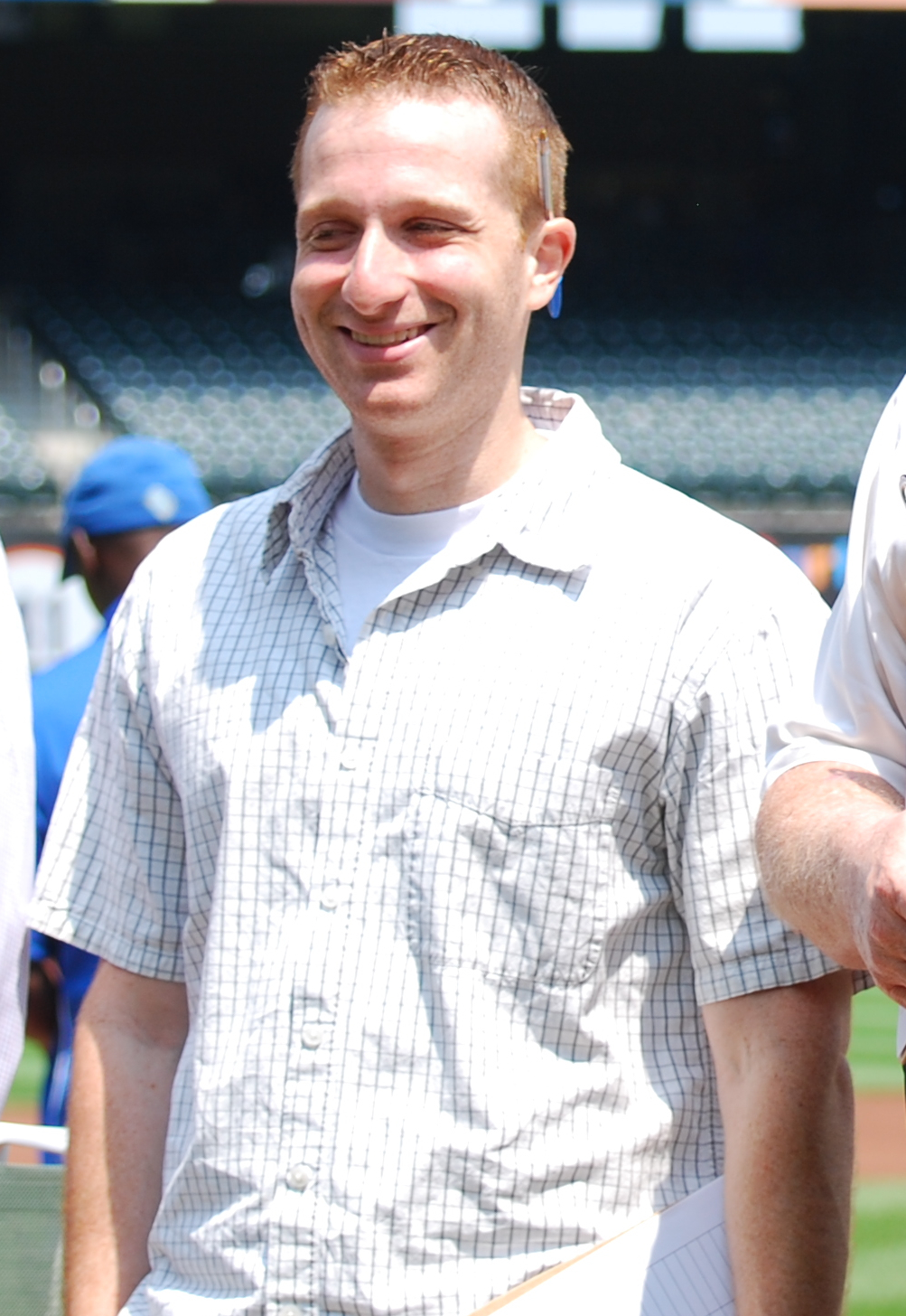 Evan Roberts at Banner Day 2012, Citi Field. Photo cropped from original.